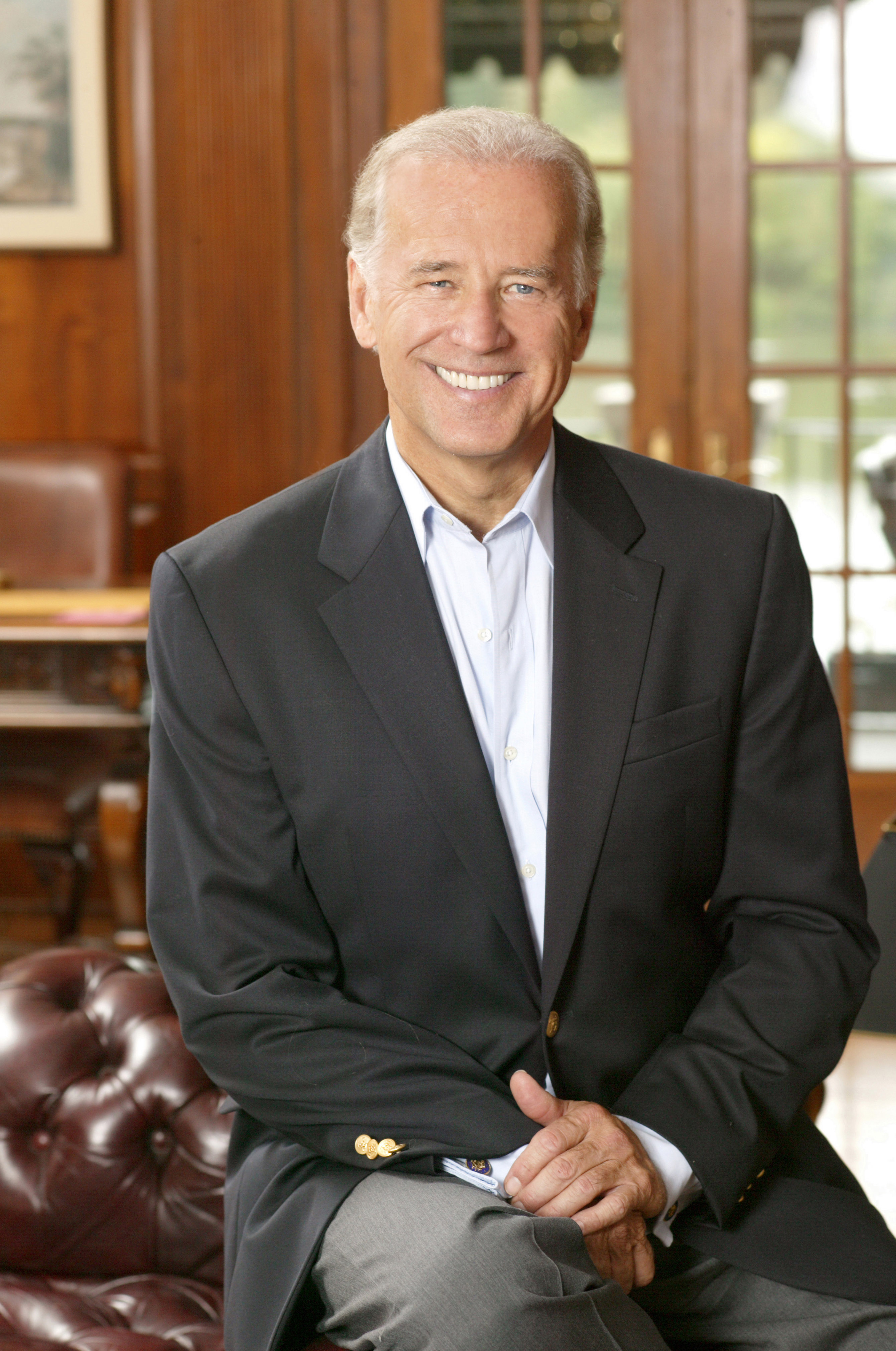 Joe Biden, Vice President of the United States.